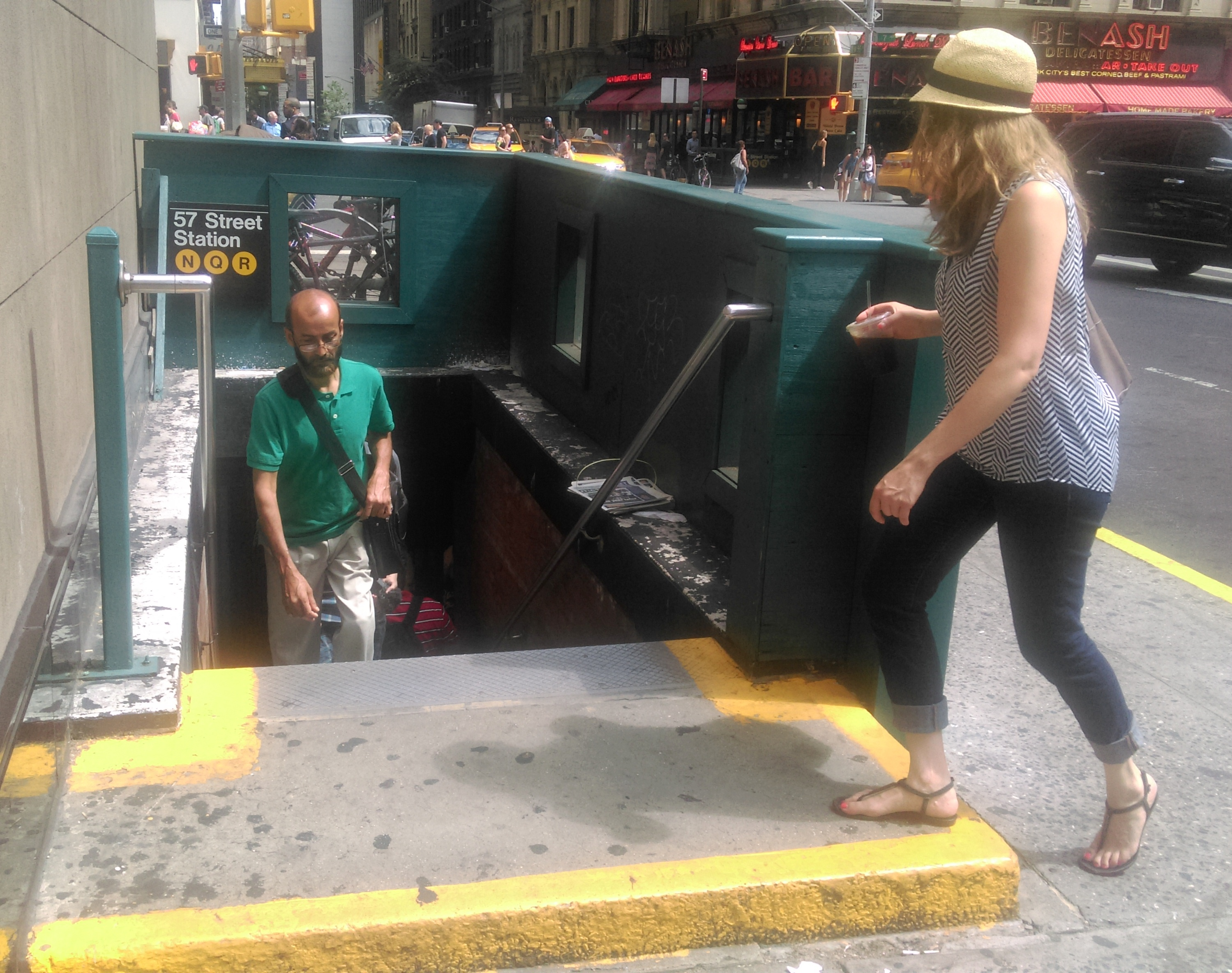 Northwest corner of 55&7